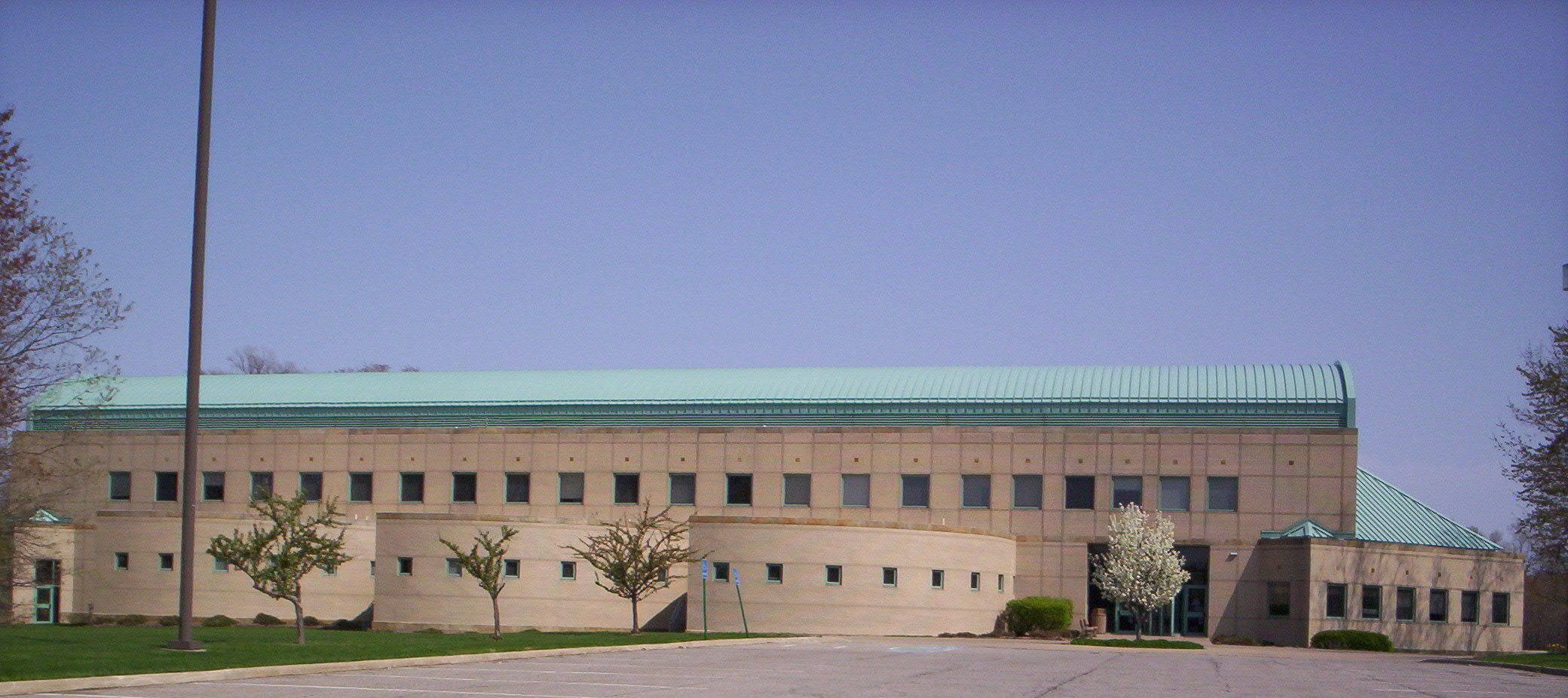 A view of the Health & Science Center at North Central State College located on the Mansfield Campus with The Ohio State University.